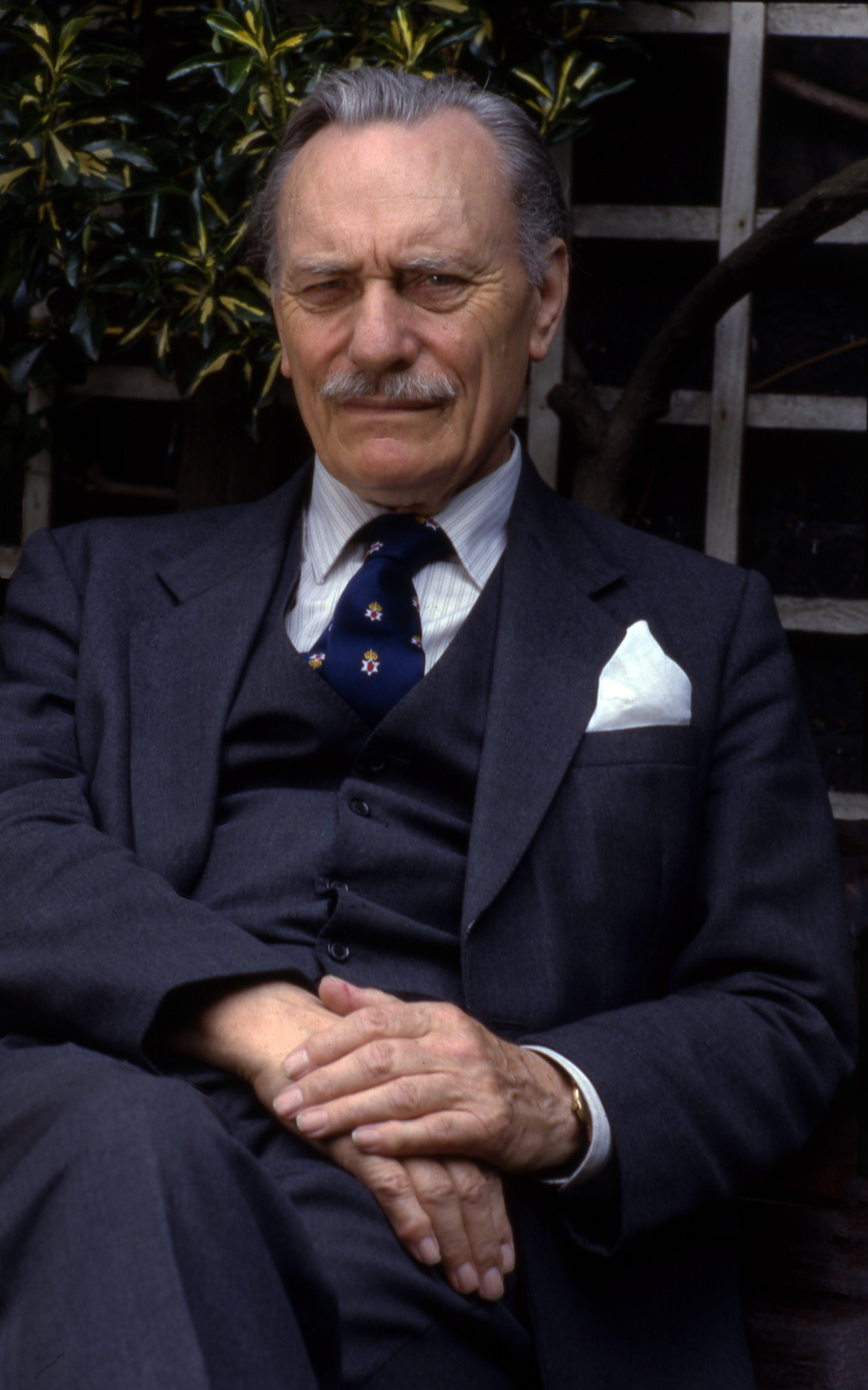 Enoch Powell